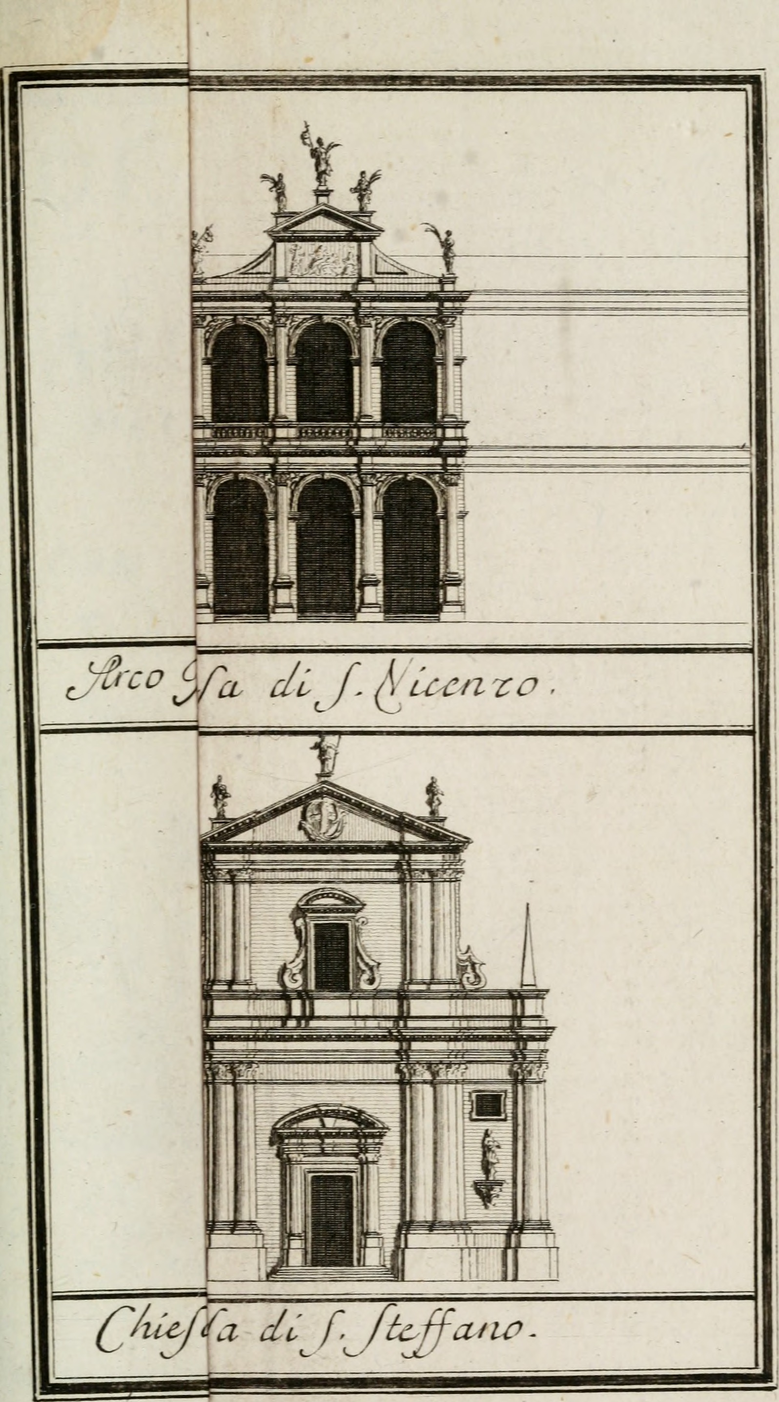 Title: Descrizione delle architetture, pitture e scolture di Vicenza, con alcune osservazioni Year: 1779 (1770s) Authors: Vendramini Mosca, Francesco Dall'Acqua, Cristoforo, 1734-1787 Subjects: Architecture Art, Italian Publisher: In Vicenza : Per Francesco Vendramini Mosca Text Appearing Before Image: uc.u .l-^(-,/u-c CUI )Lnklìc,uc. Text Appearing After Image: '